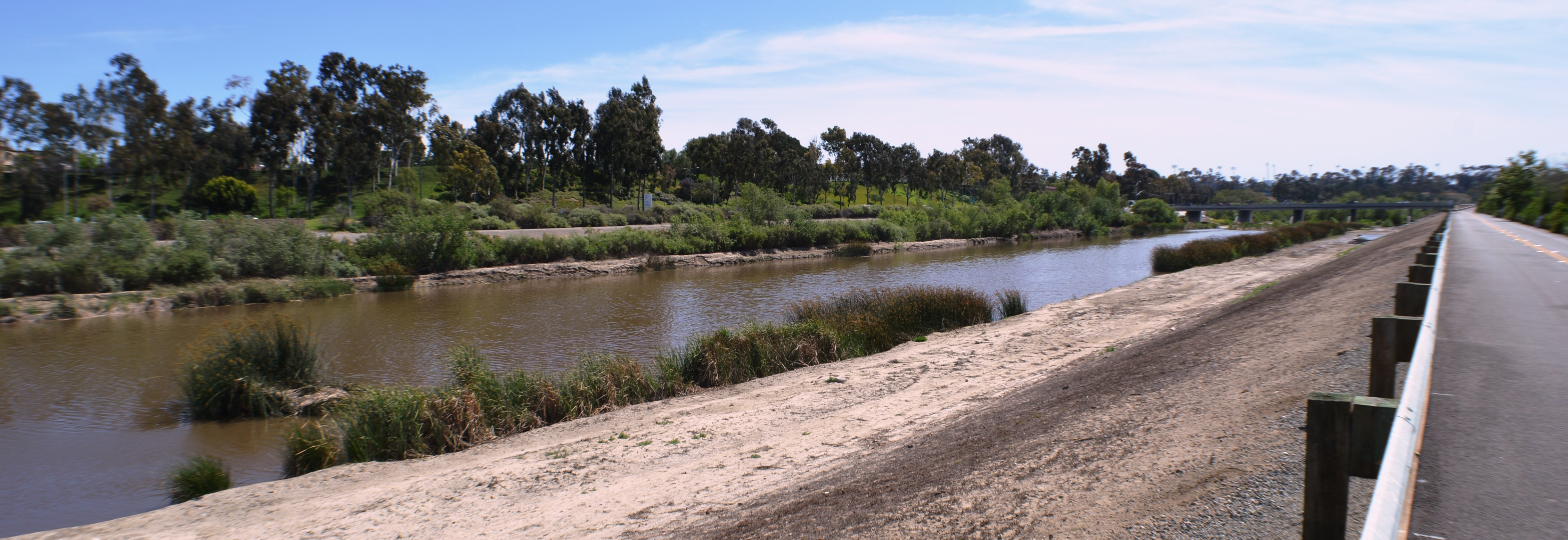 San Diego Creek (on left) and Riparian View (street on right). UCI is behind the trees across the creek. The San Joaquin Wildlife Sanctuary is on my right (not seen in the photo).